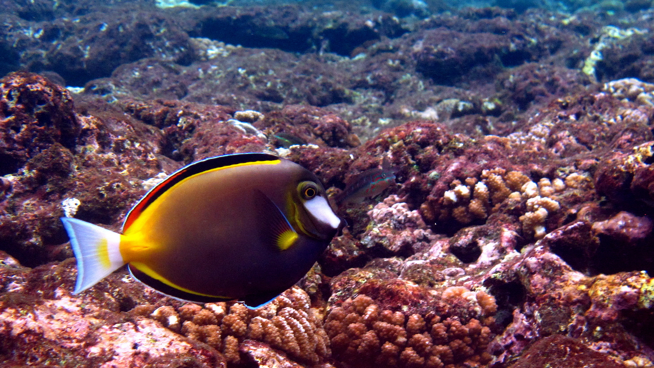 Also known as Japan Surgeonfish, White-faced Surgeonfish and White-nose Surgeonfish. The Japan Surgeonfish (Acanthurus japonicus) was easily found in the shellow water reef area of Green Island, a famous diving site located at 21 miles away from southeast coast of TAIWAN.